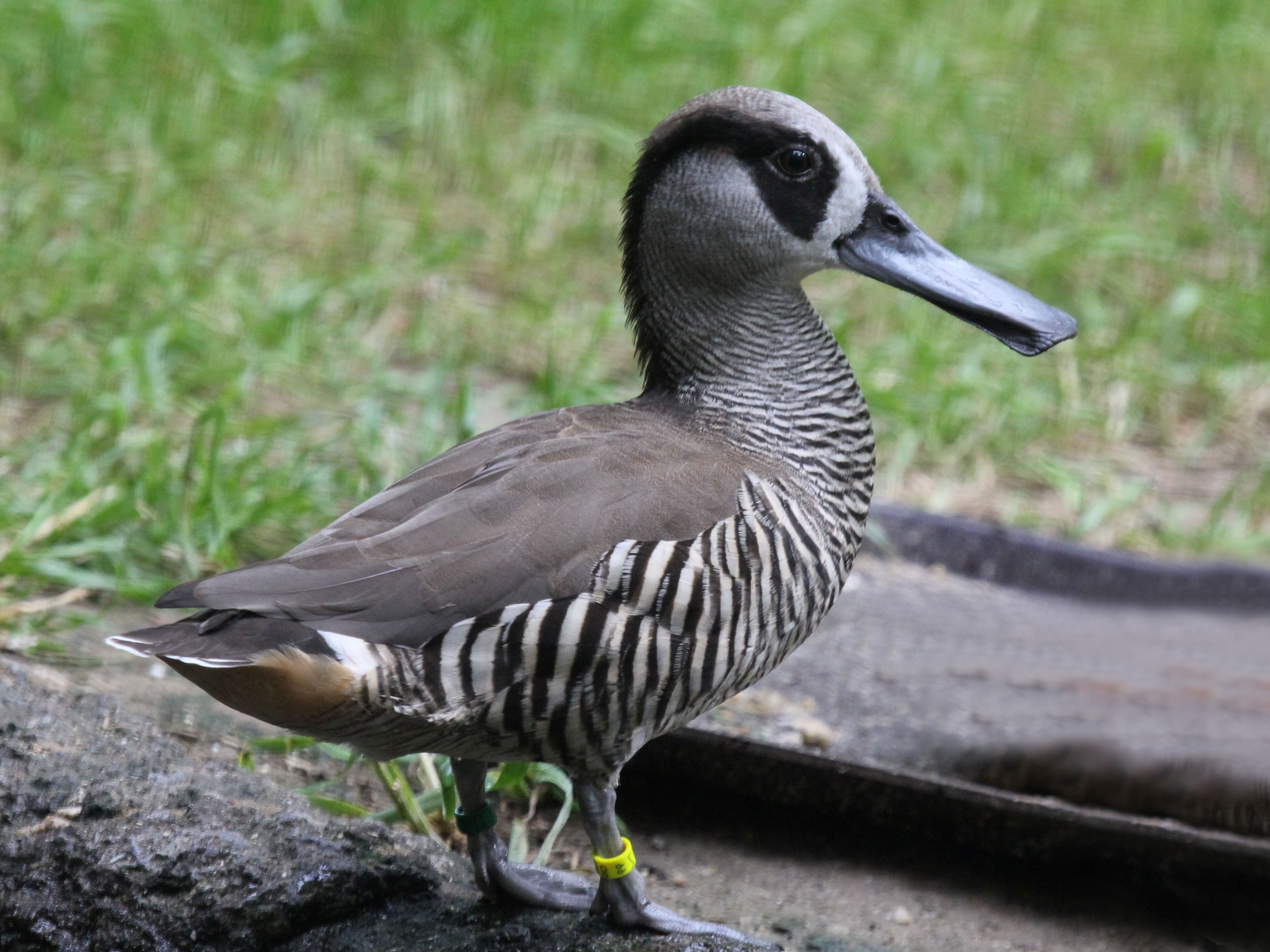 Pink-eared Duck (Malacorhynchus membranaceus) - Sylvan Heights Waterfowl Park, North Carolina